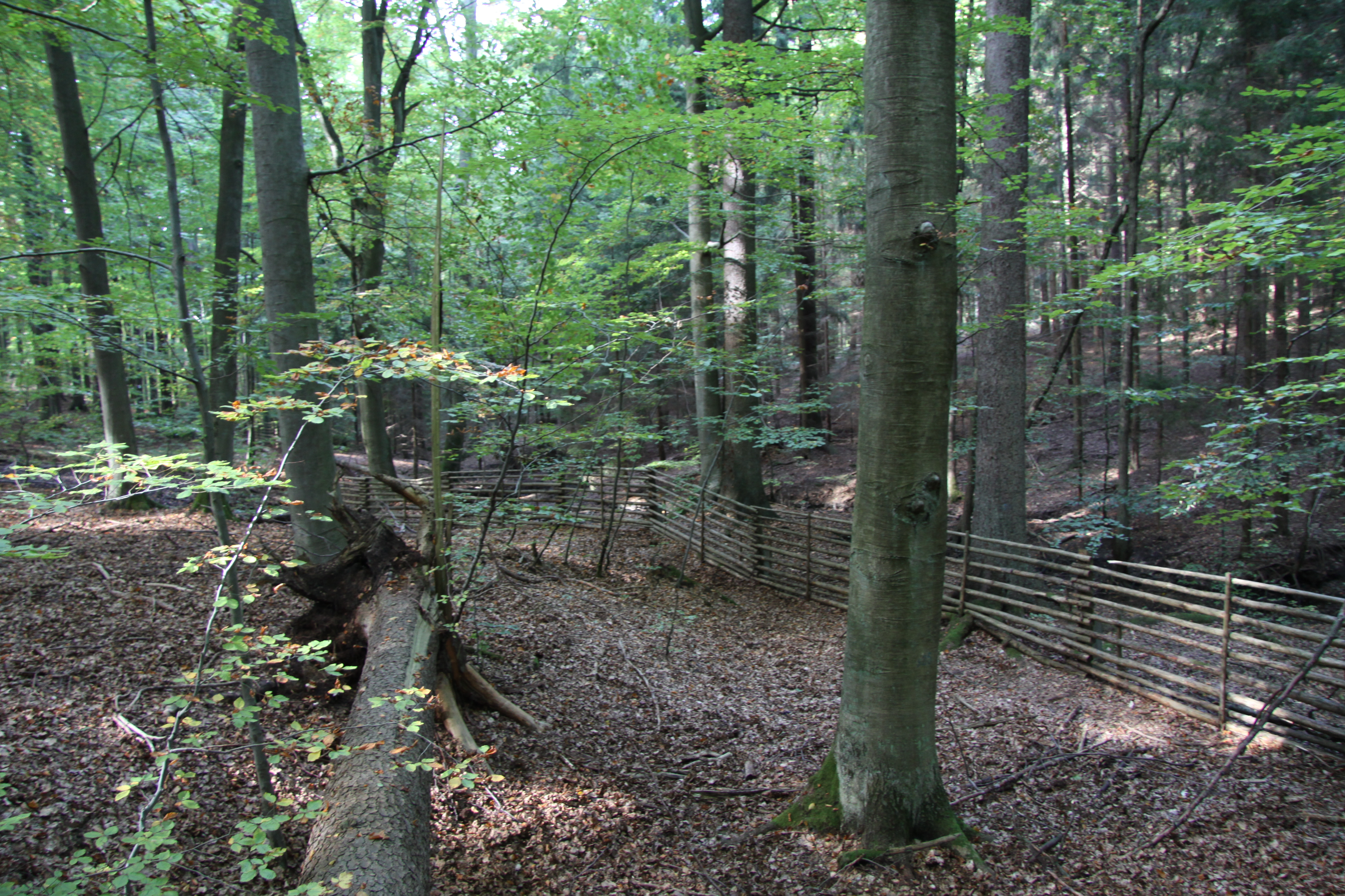 Natural monument Rukávečská obora, Písek District, Czech Republic